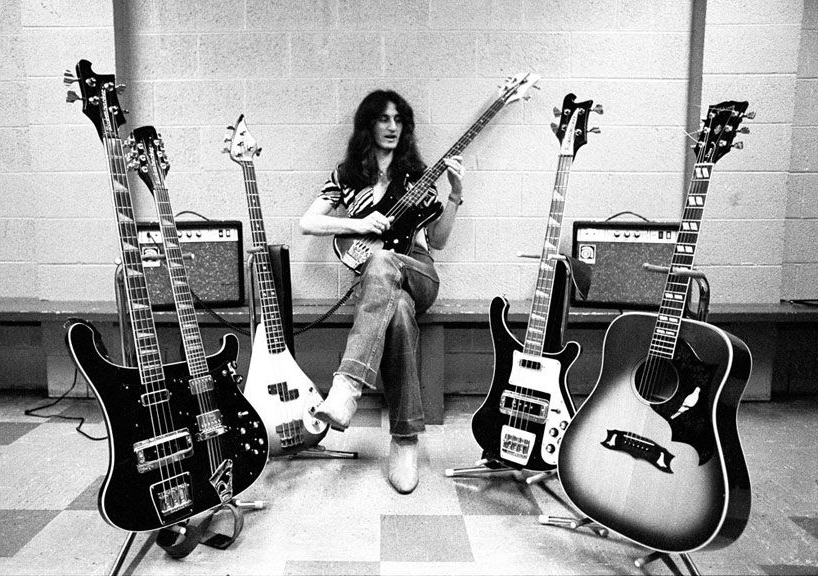 Rickenbacker 4080/12 double neck Fender Precision Bass, custom modified "teardrop" corpus with '57 Chevy paintjob, modified headstock Ampeg amp Geddy Lee of Rush with Rickenbacker 3001 Rickenbacker 4001 Ampeg amp Gibson Dove ?